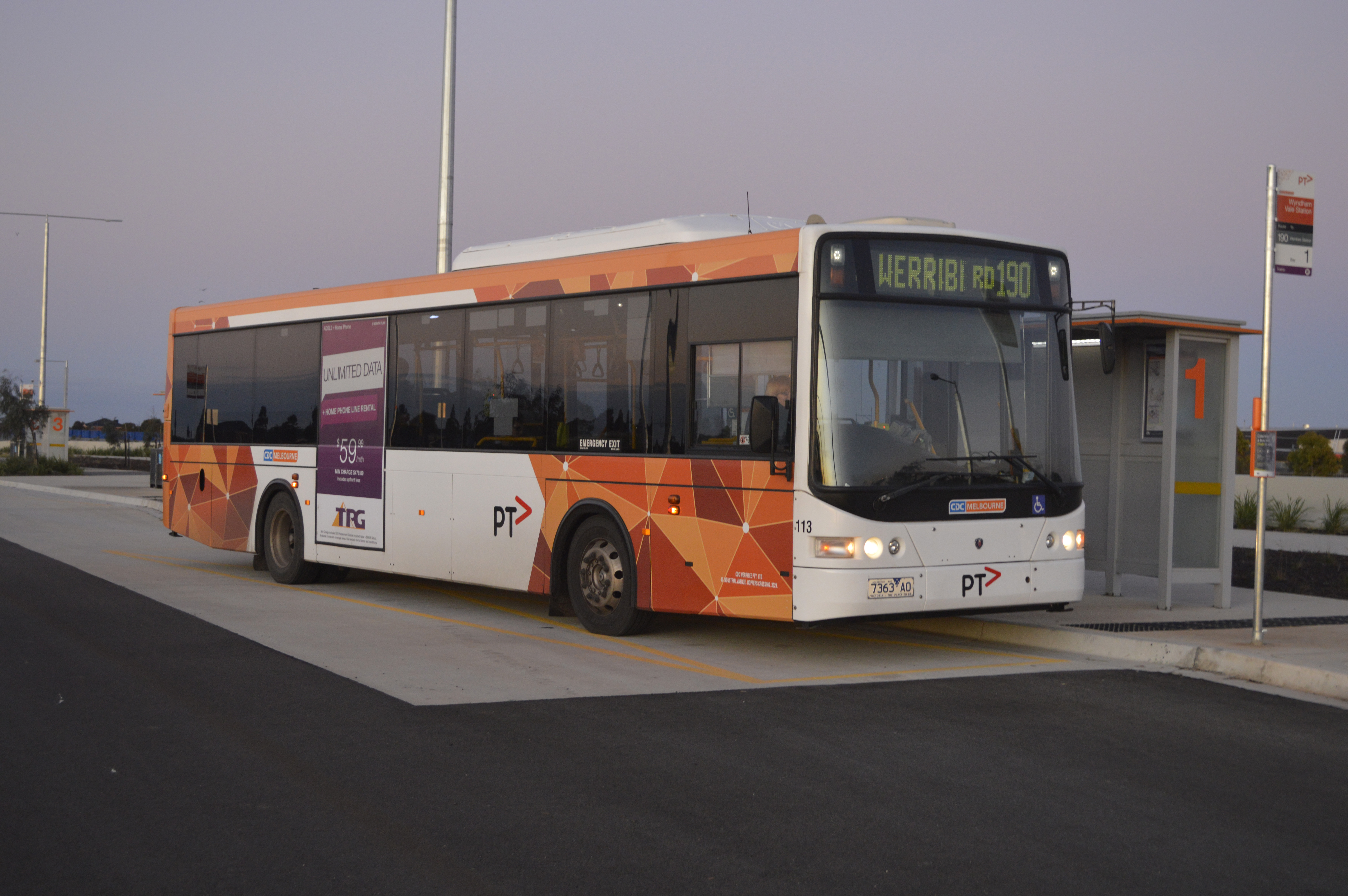 CDC Melbourne (Wyndham) #113 Scania K120UB (Volgren 'CR228L') seen at Wyndham Vale station.